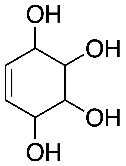 Structure of conduritol